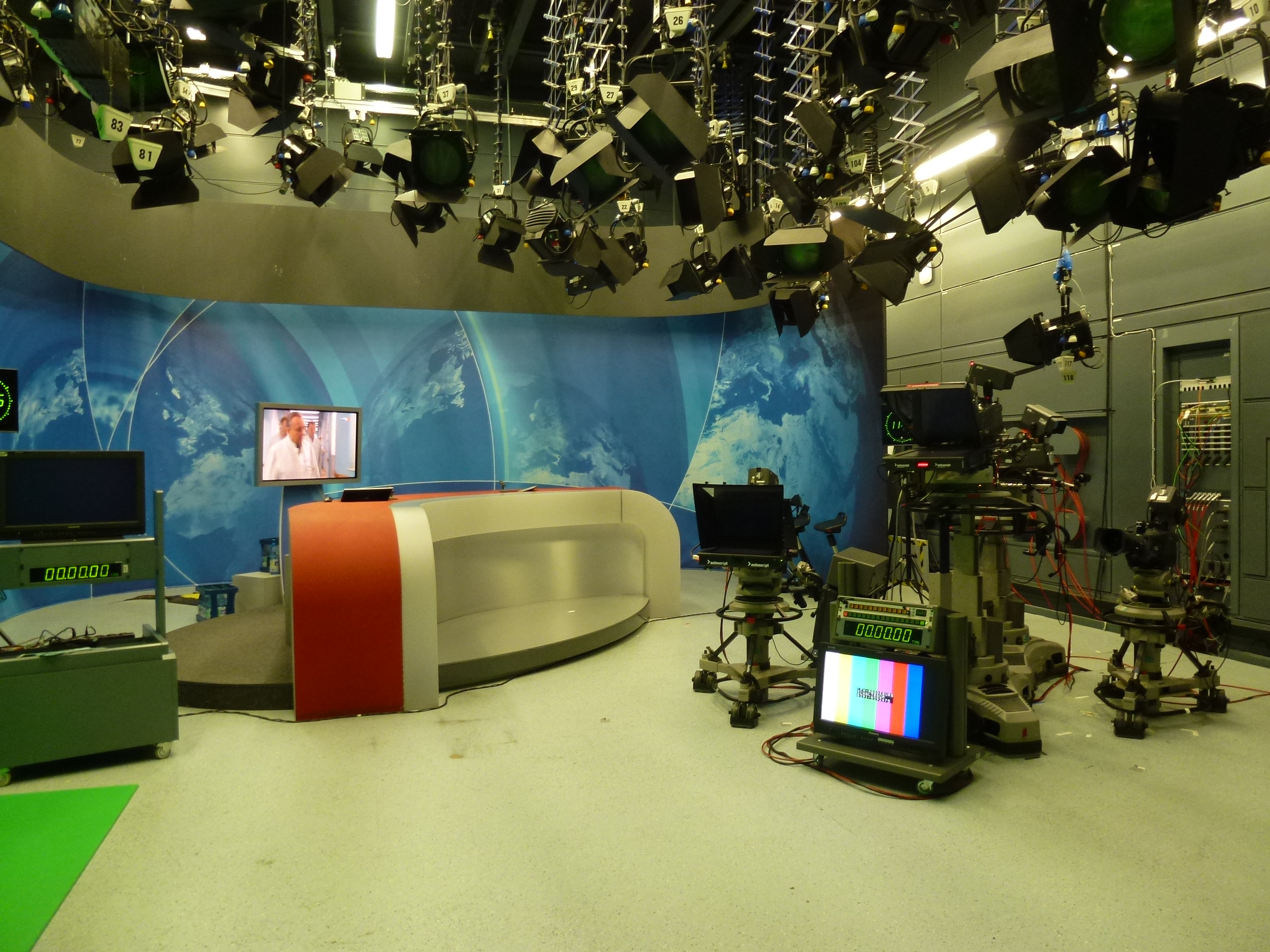 Mitteldeutscher Rundfunk (MDR) Leipzig Studio